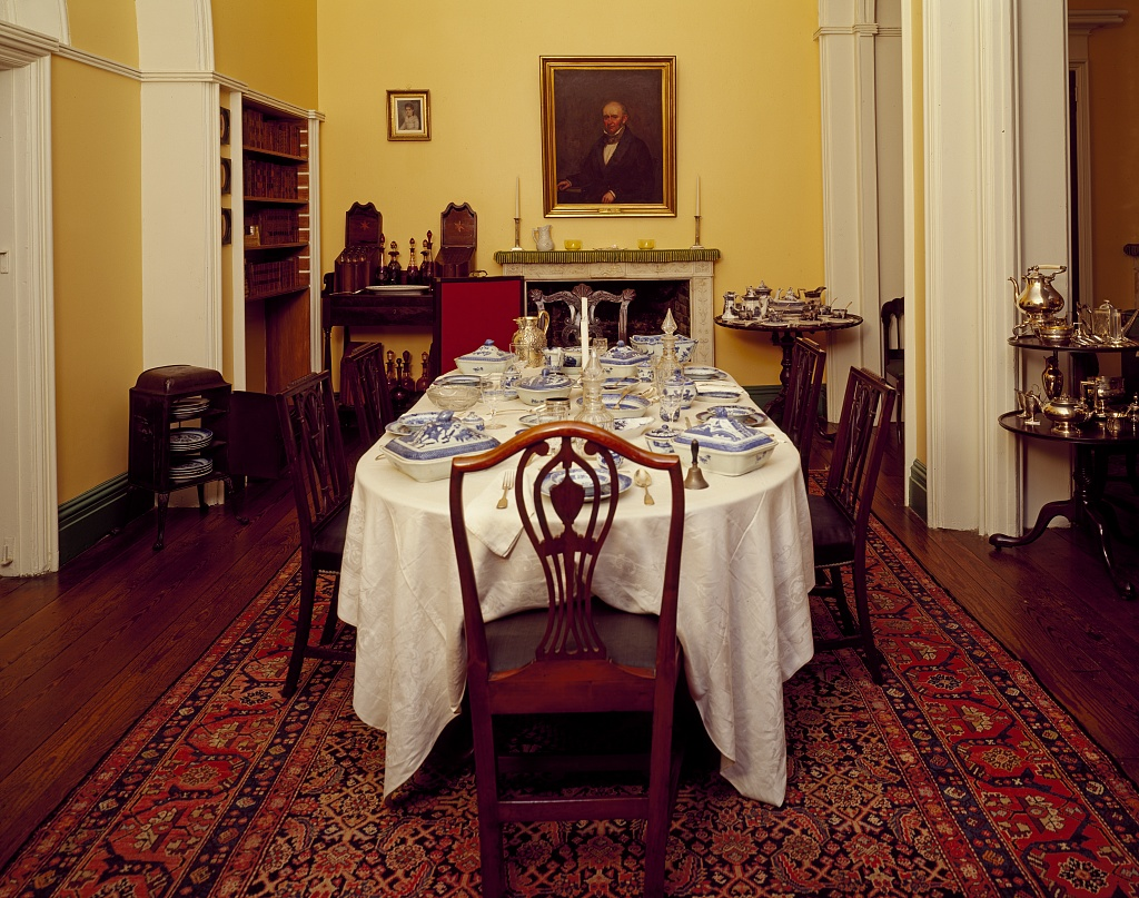 Dining room at Arlington House, Robert E. Lee's house at Arlington Cemetery, Arlington, Virginia